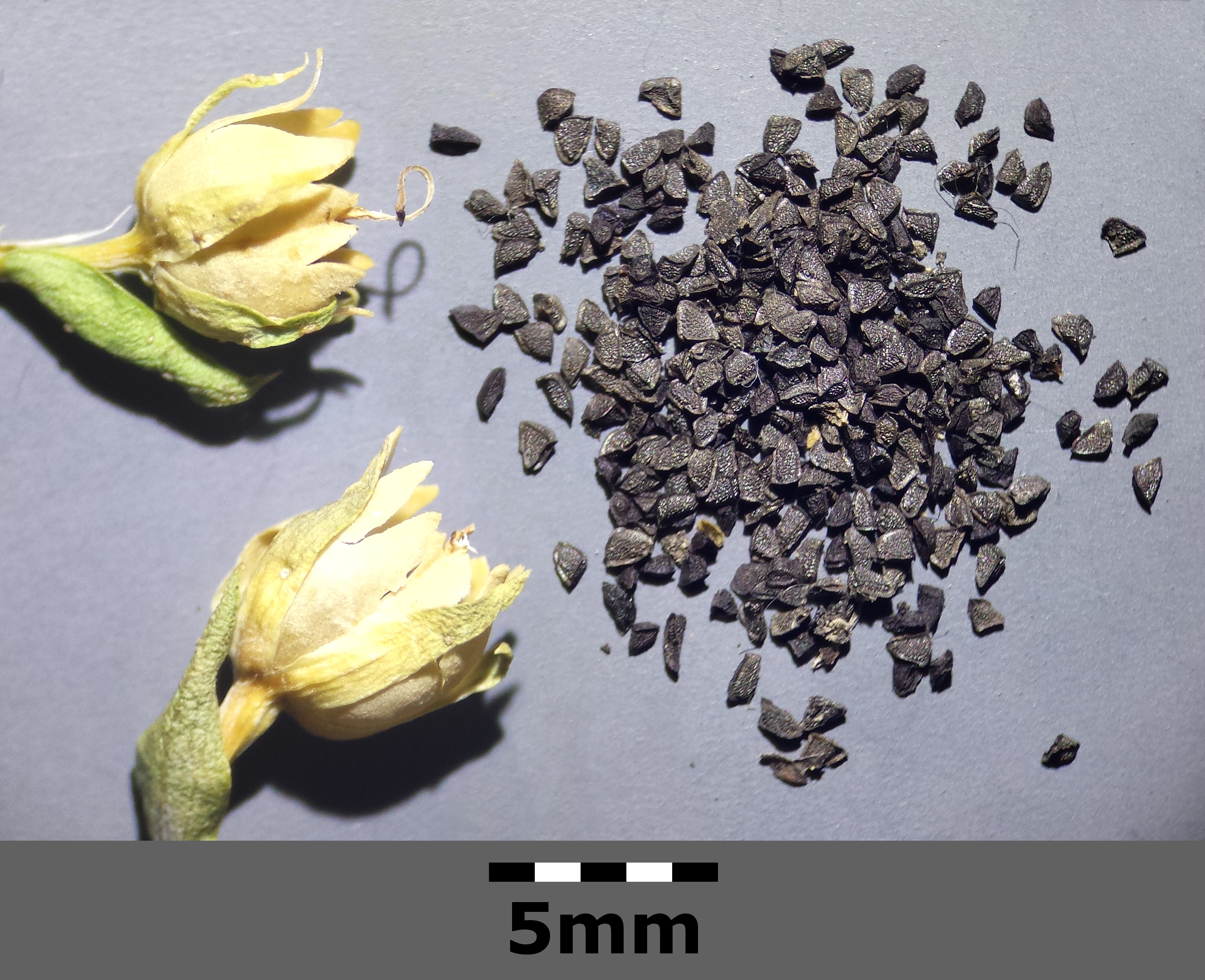 Fruits with seeds Taxonym: Linaria genistifolia (ss Fischer et al. EfÖLS 2008 ISBN 978-3-85474-187-9) Location: abandoned marshalling-yard Breitenlee, Vienna-Donaustadt - ca. 160 m a.s.l. Habitat: ballast